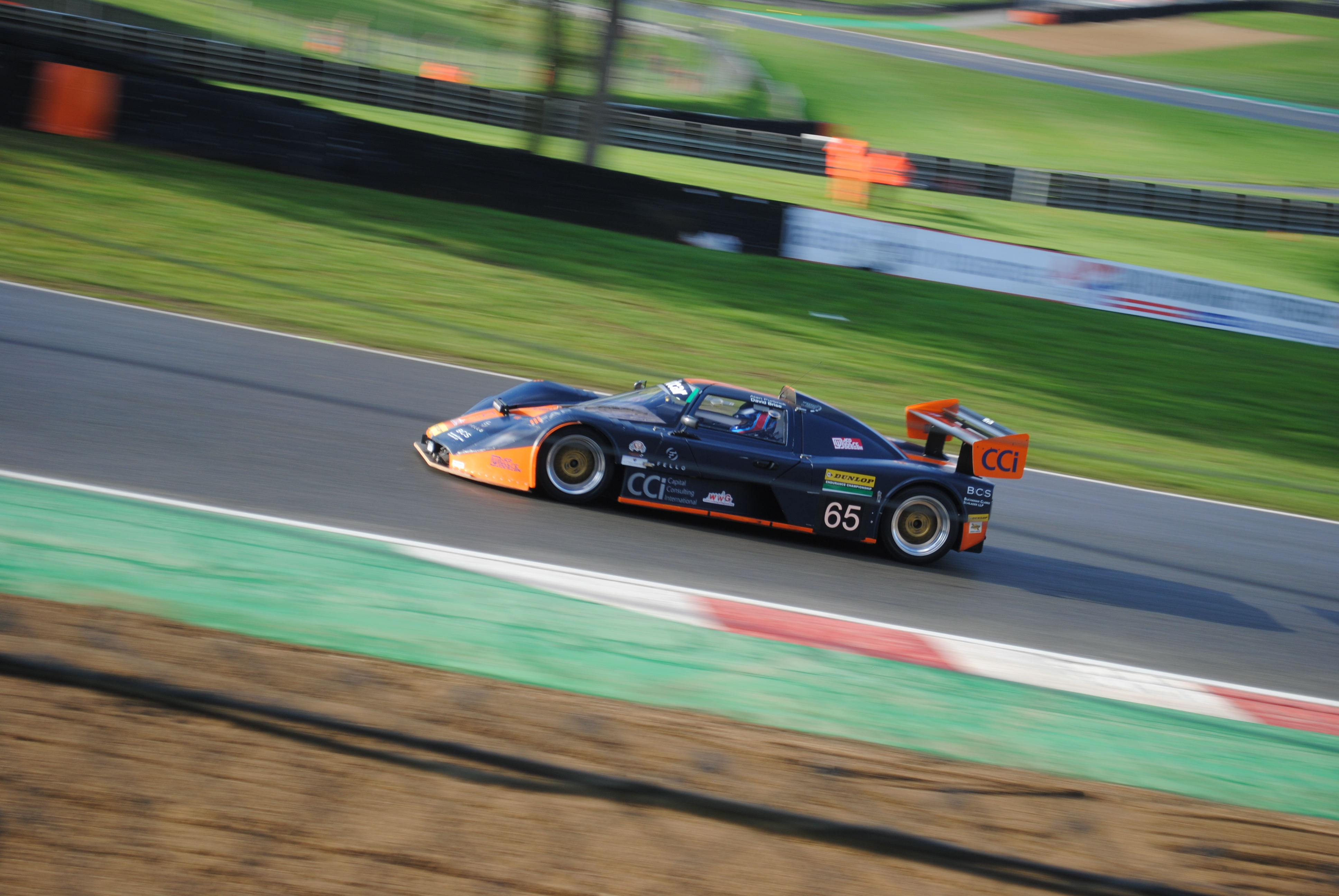 The Dutch Saker RAPX of Alan Purbrick and Tony Brise at Brands Hatch.